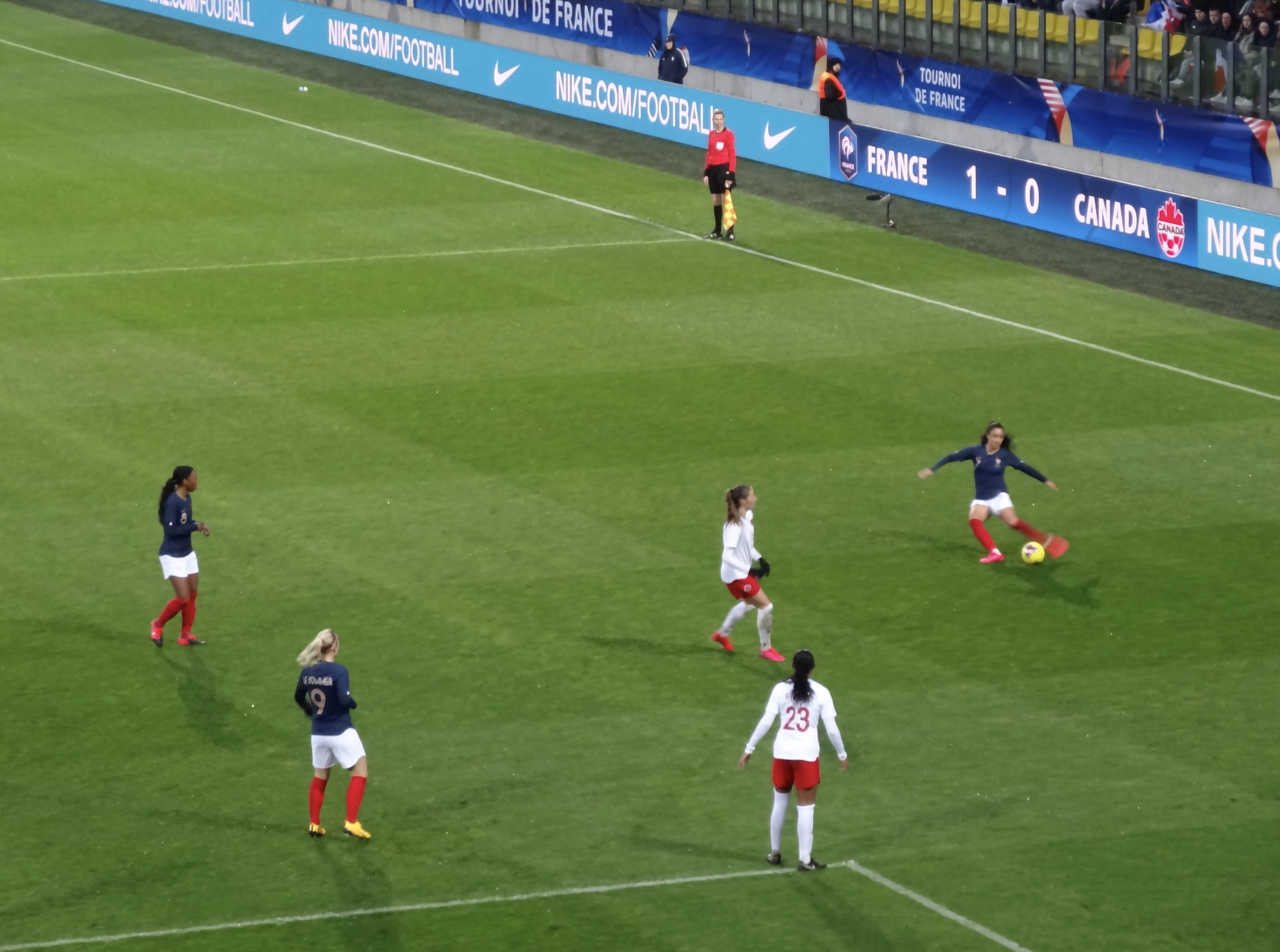 France - Canada Tournoi de France 2020 Calais